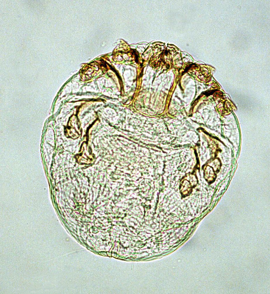 Knemidocoptes mite, parasite of skin of birds.